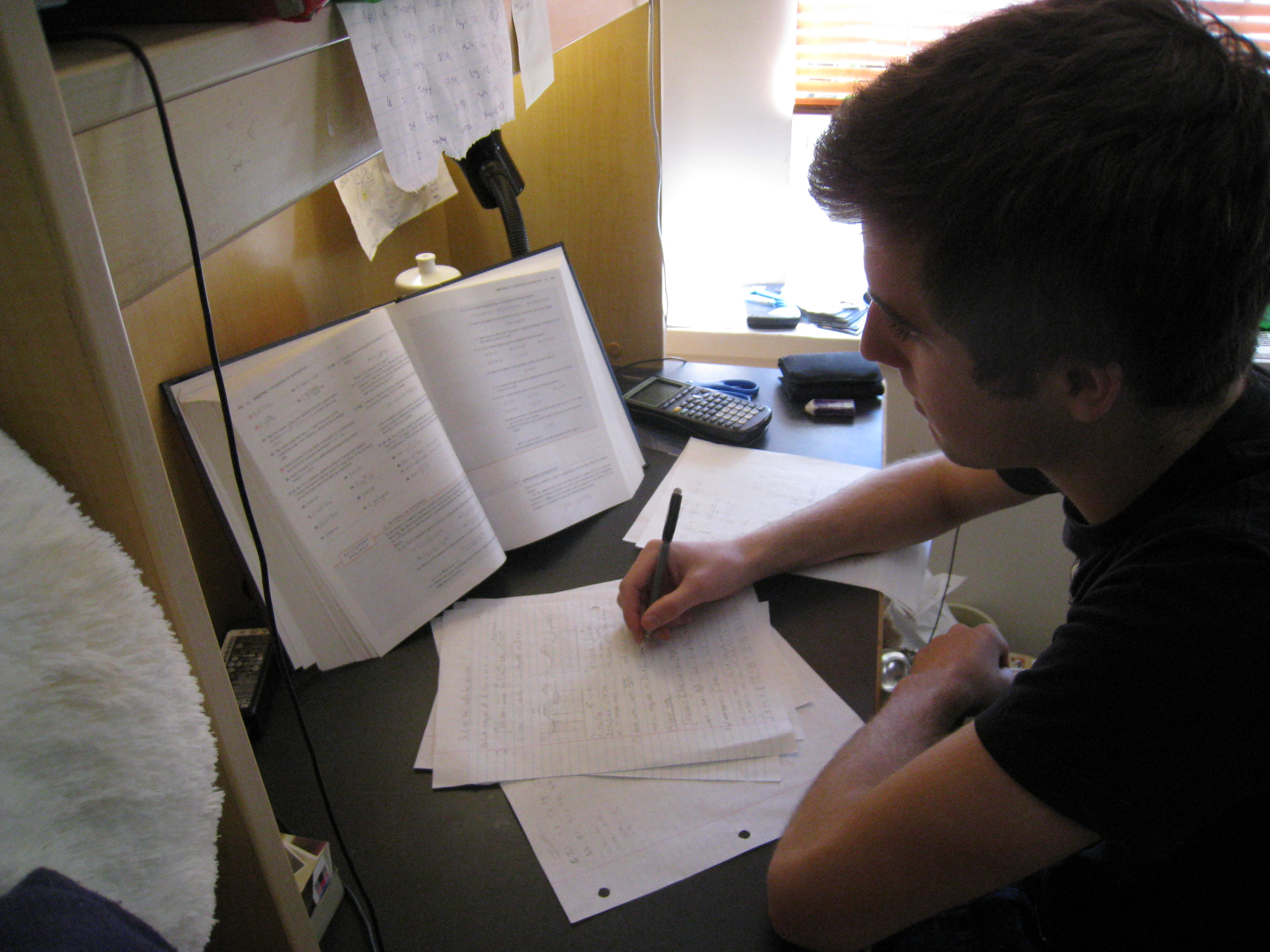 A Student of the University of British Columbia studying for final exams.